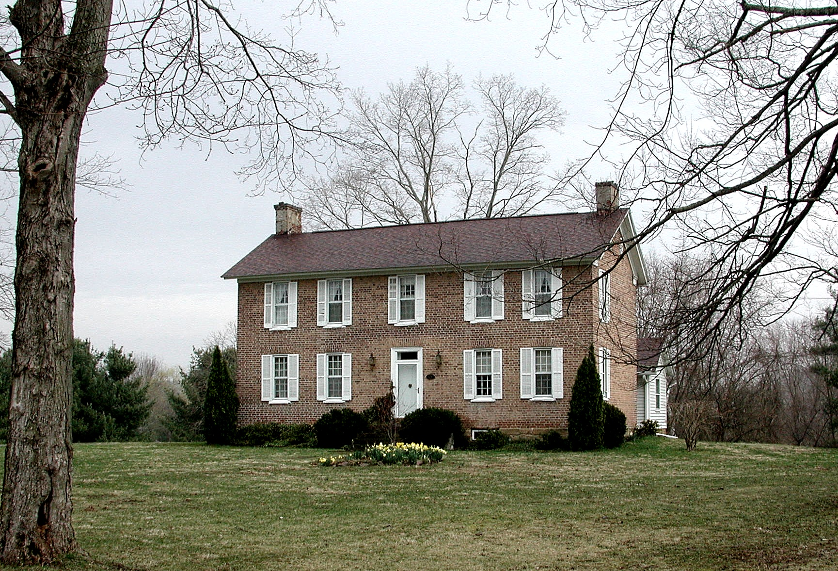 Federalton, a house built in 1817 in Stewart, Ohio (Athens County), and on the National Register.